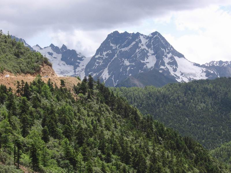 Snowy mountains (probably 'white-horse mountain') in Diqing (迪庆), north-west Yunnan, China. Taken by Ariel Steiner.